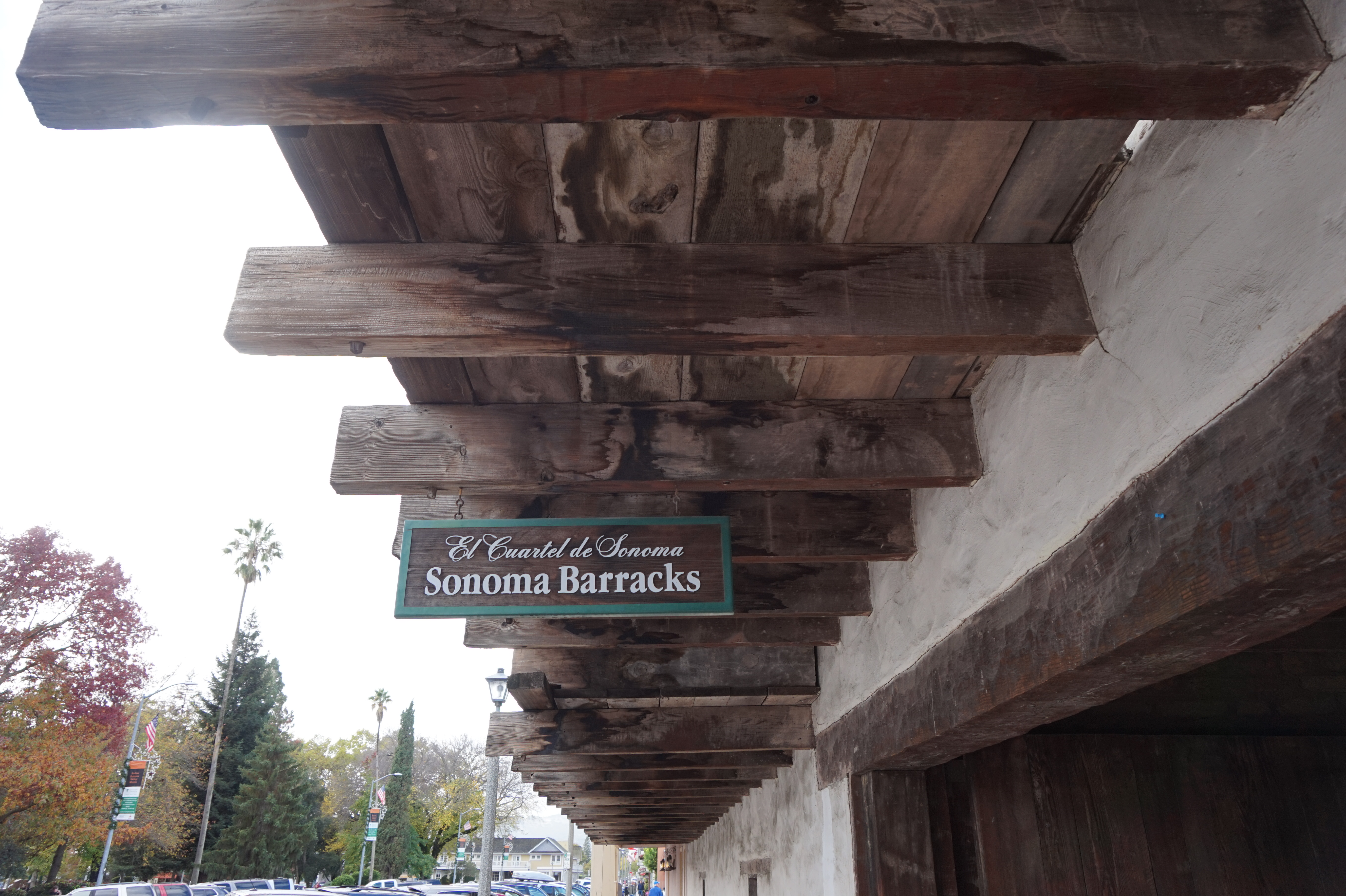 sonoma barracks